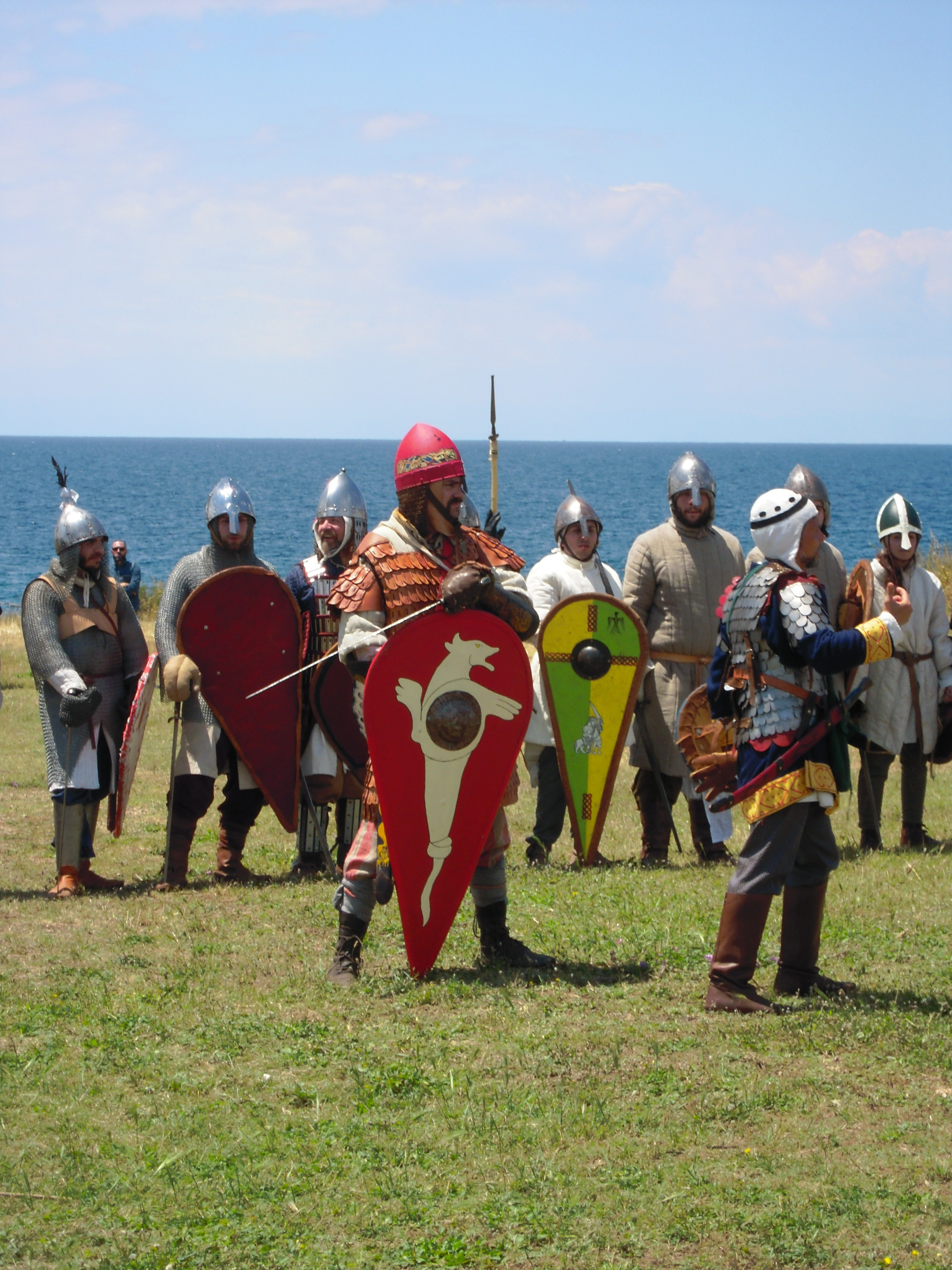 Norman infantry with with Kite shield (xi century)